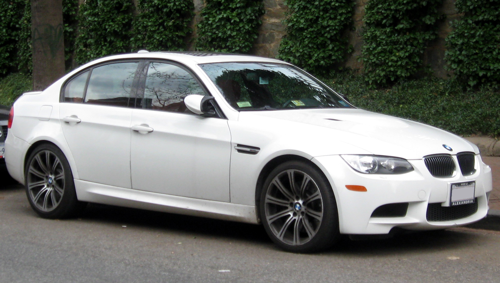 2009-2011 BMW M3 photographed in Washington, D.C., USA.